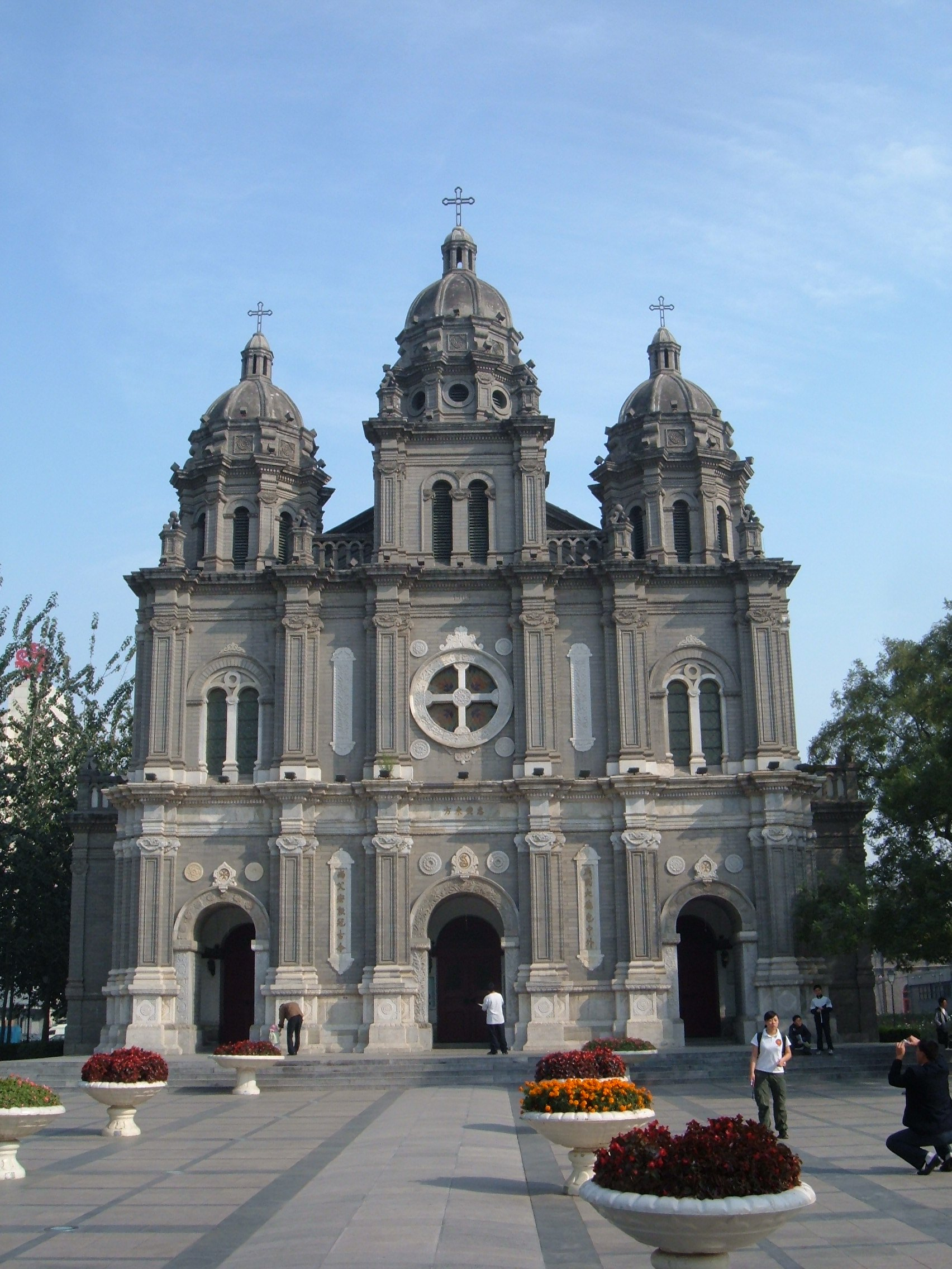 St. Joseph's Cathedral, AKA Dong Tang or the East Church, in Beijing, PRC.